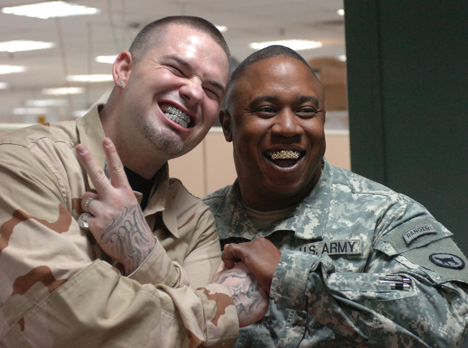 Paul Wall and Sgt. Philip Rhett, from Columbia, S.C, show off their "grills" (a decorative cover for teeth) during the rapper's recent visit to Multi-National Division-Baghdad's headquarters at Camp Liberty in western Baghdad, Aug. 8. Rhett, with the 642nd Regional Support Group, currently supporting the division's rear operations center, surprised the crowd by pulling out a grill of his own.